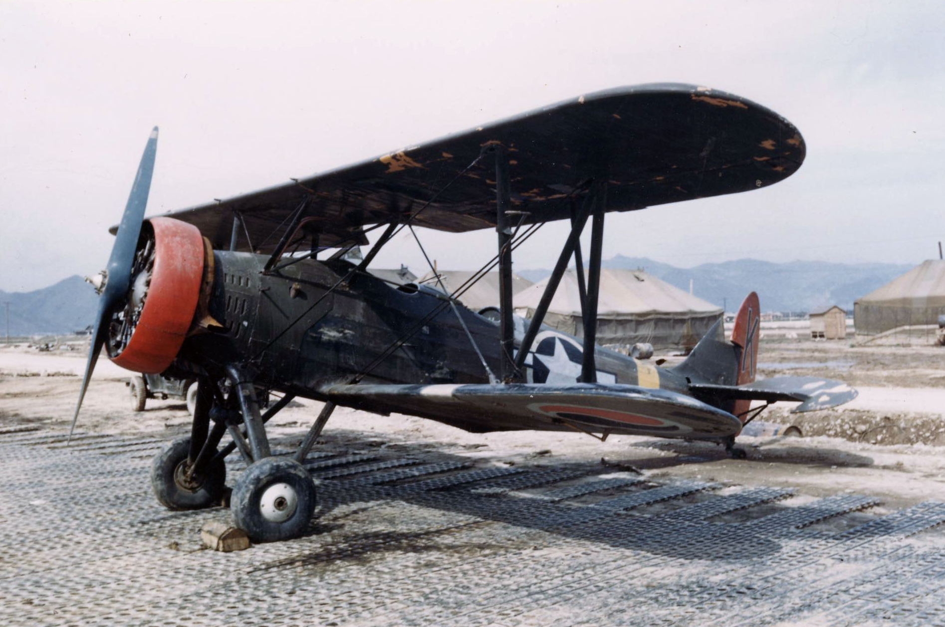 A former Japanese Tachikawa Ki-9 "Spruce" pictured at airfield K-1 (Pusan-West) in South Korea during 1951. Note that it is painted in South Korean markings on the wings and a 1944-1946-style US insignia on the fuselage.